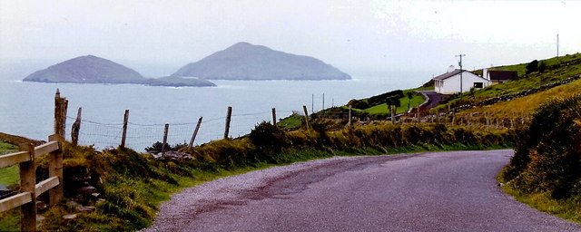 Ring of Kerry - Road and Deenish & Scariff Islands View is to southwest from the west end of a road south of Vista Bar and Restaurant.